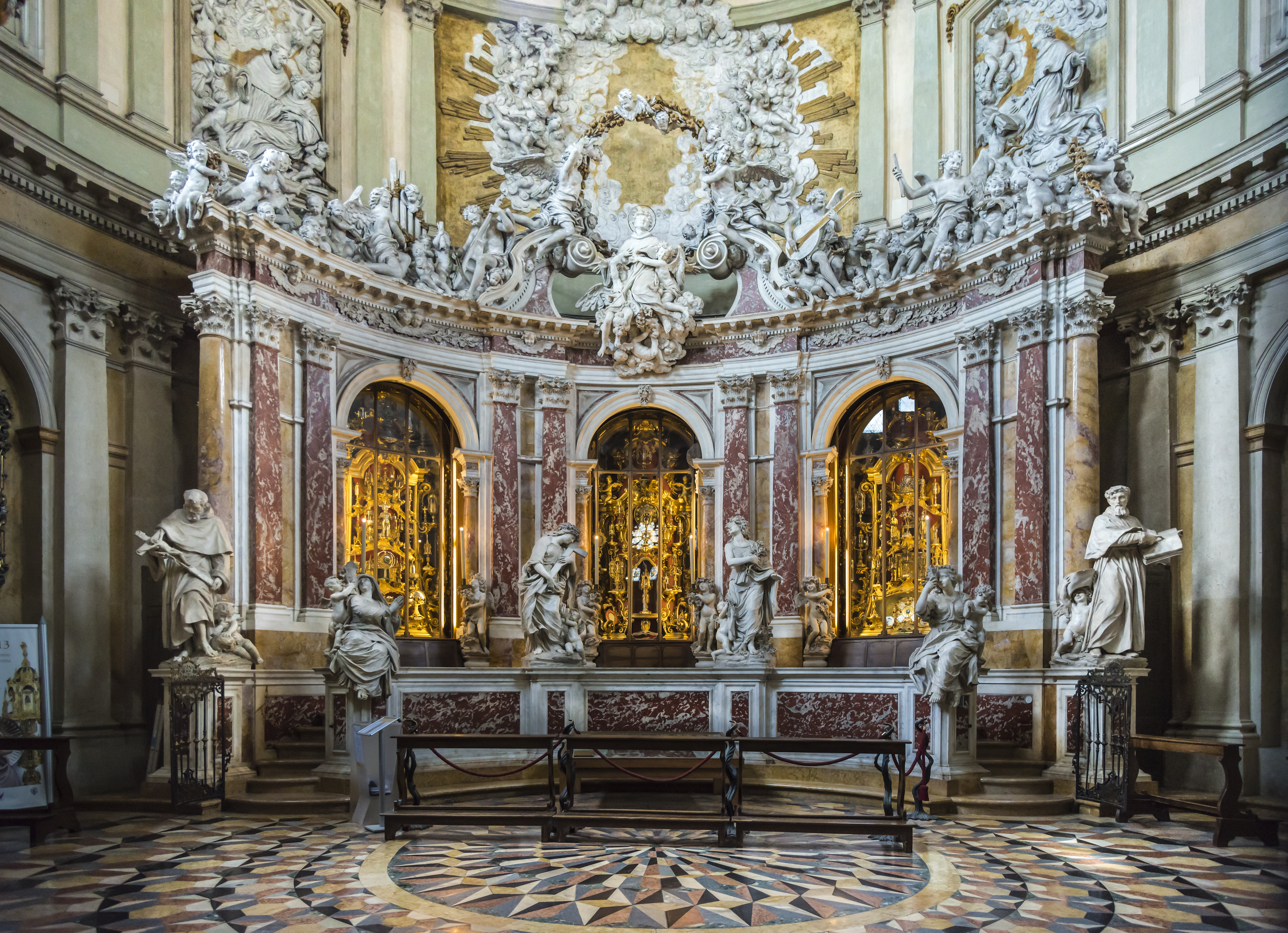 Basilica of Saint Anthony of Padua - The chapel of the relics, by the sculptor Filippo Parodi.